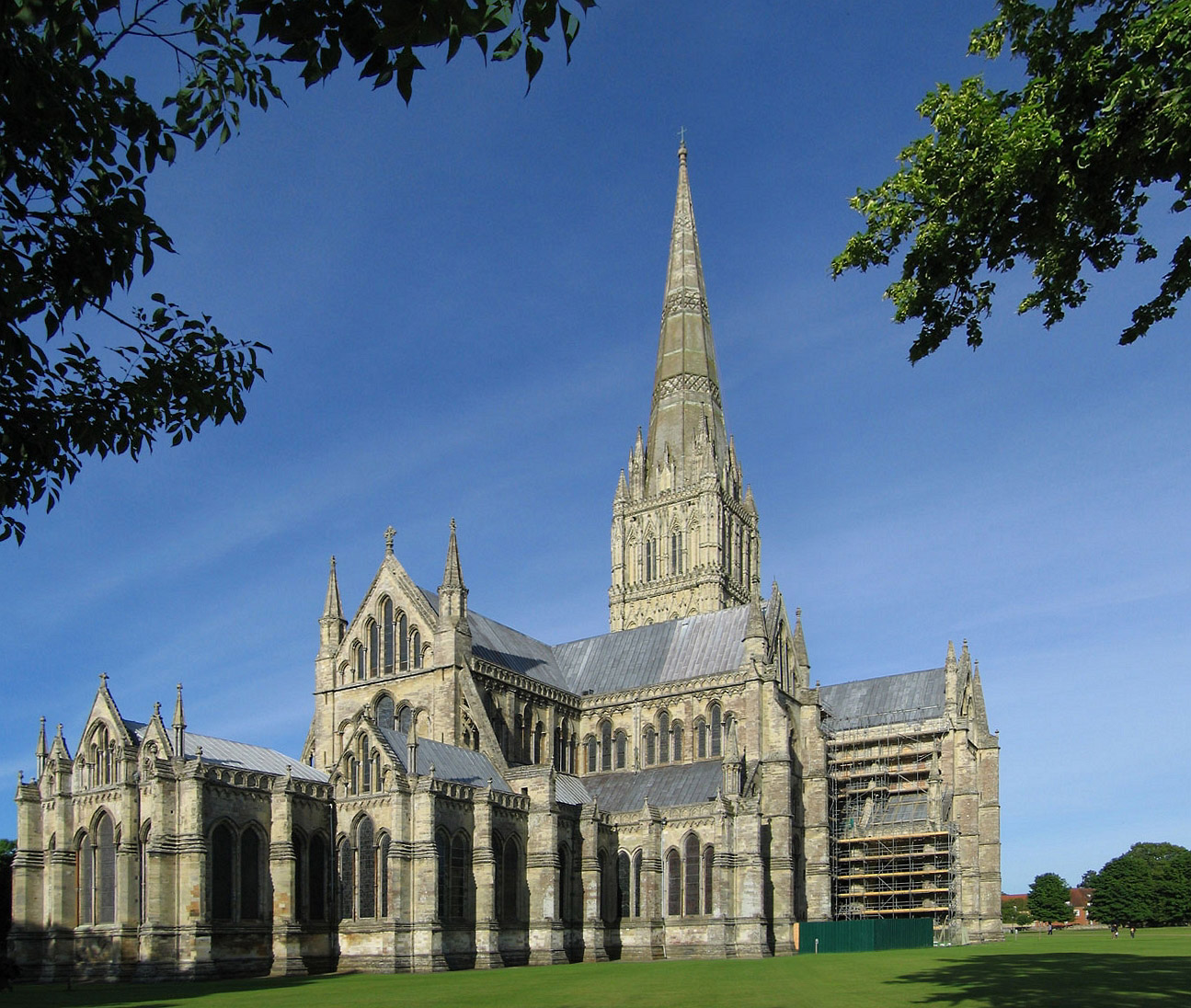 Salisbury Cathedral, Wiltshire, England, in early morning light. The cathedral has the tallest church spire in the UK.